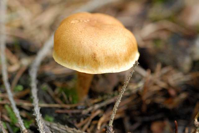 Probably Gymnopilus penetrans from Commanster, Belgian High Ardennes. The determination of the species shown in this picture has been verified.